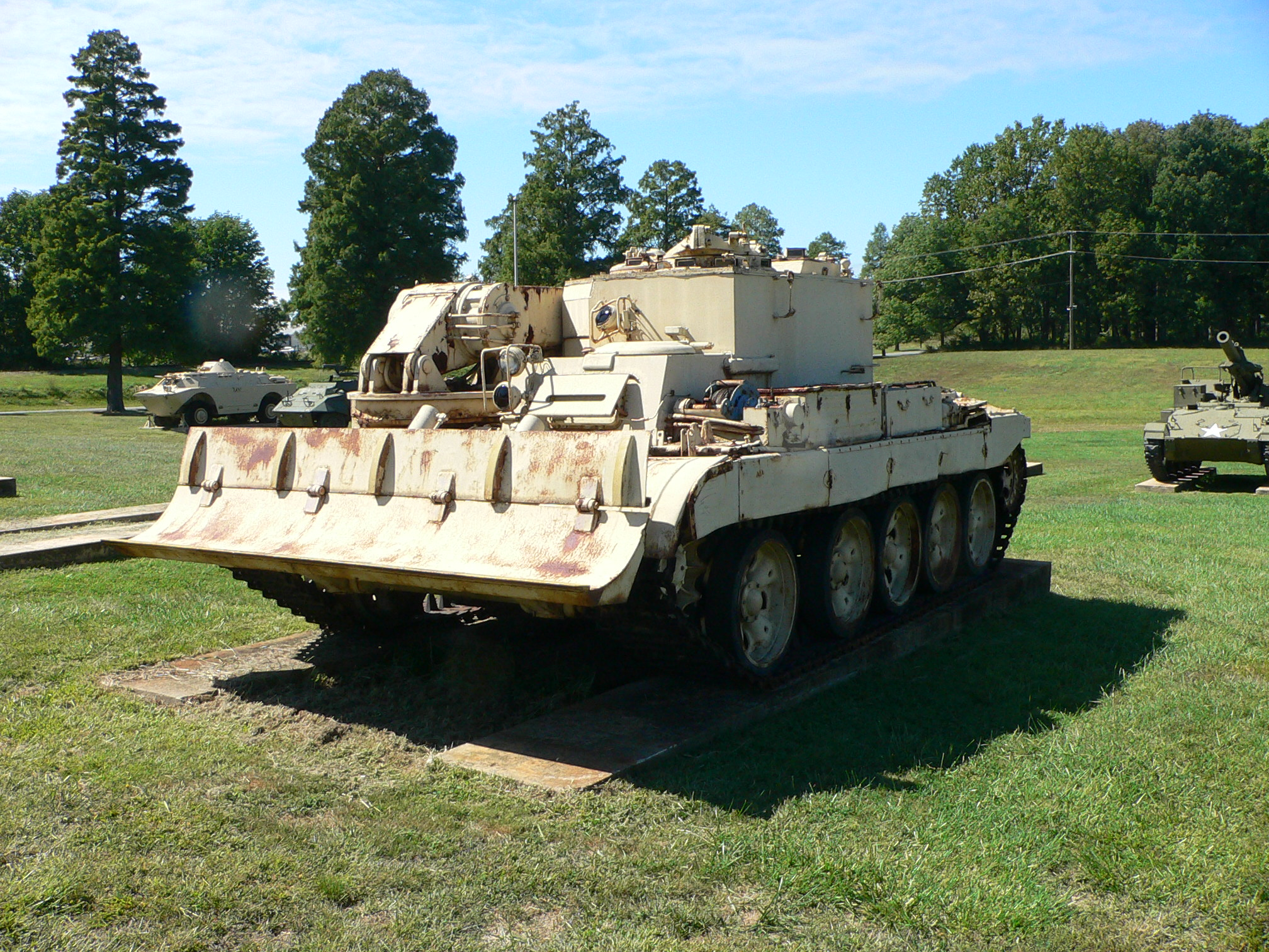 Picture taken by myself, Mark Pellegrini, at the United States Army Ordnance Museum (Aberdeen Proving Ground, MD)